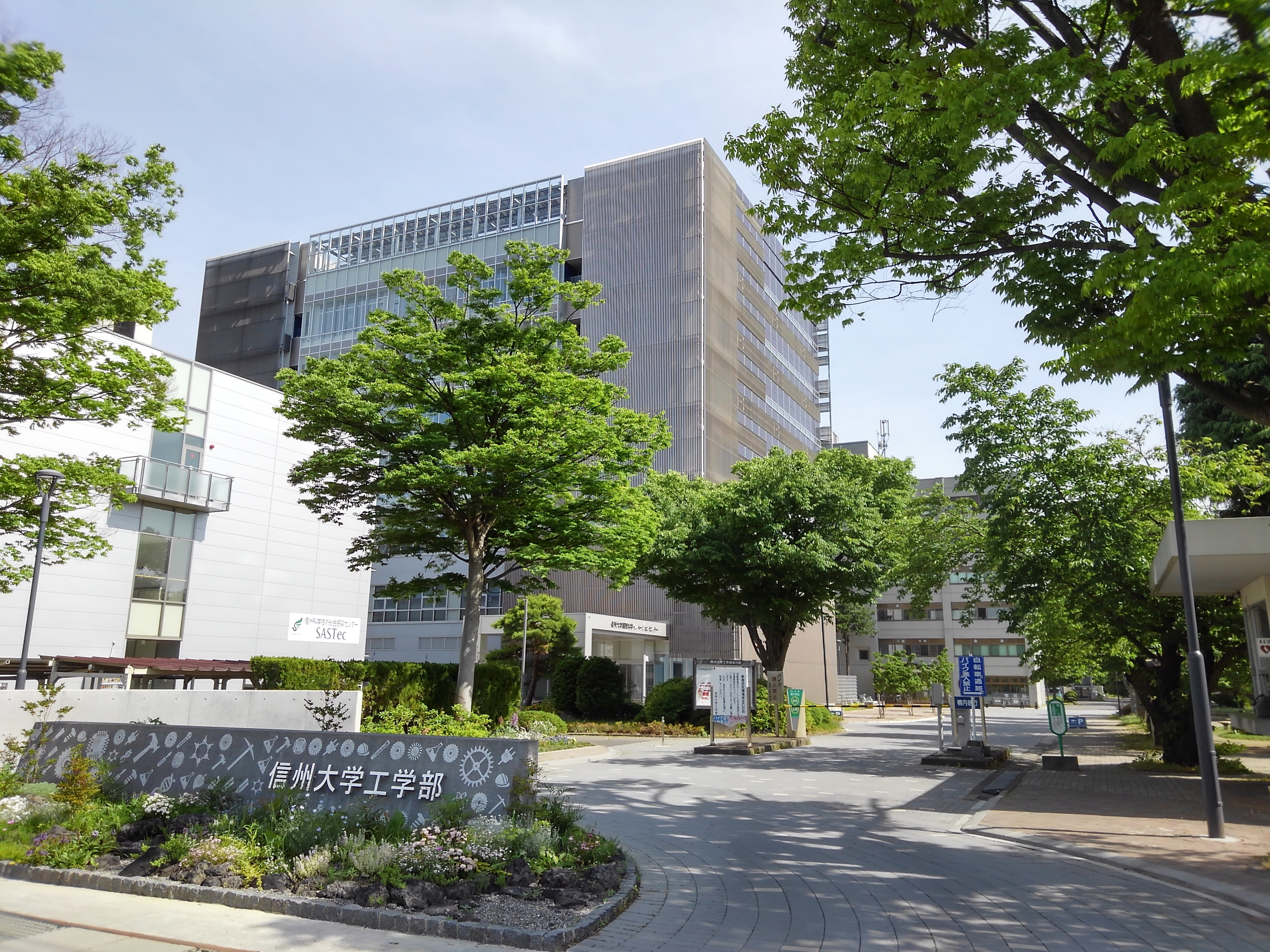 Main entrance to Nagano (Engineering) Campus, Shinshu University, located in Nagano, Nagano, Japan.